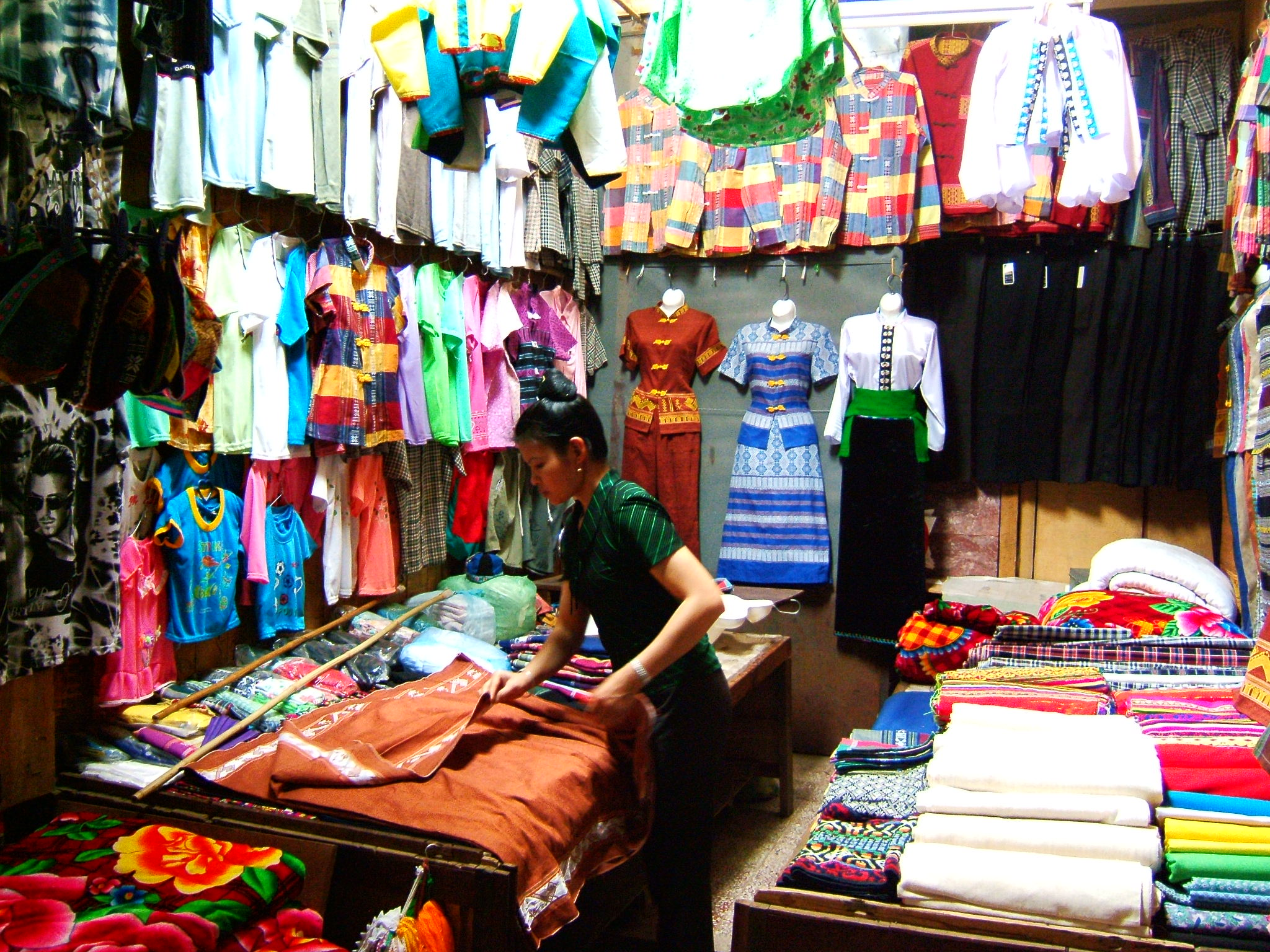 Brocade Market in Muong Lo, Nghia Lo, Yen Bai